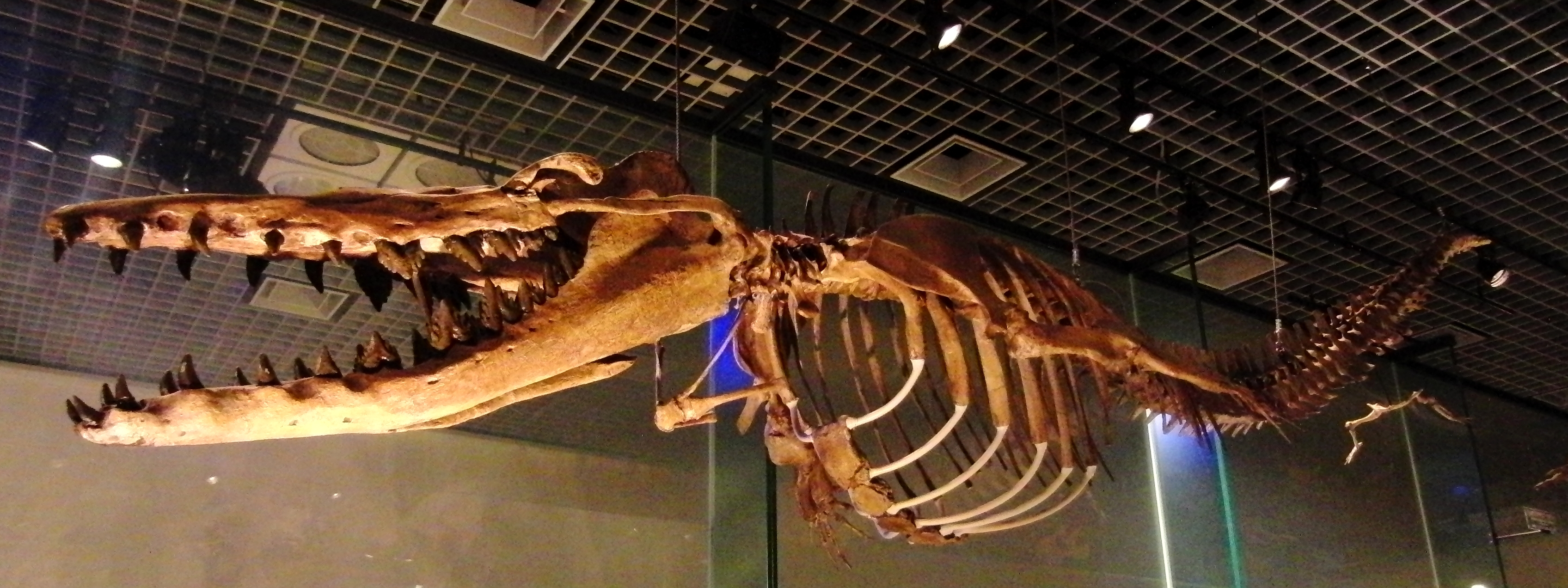 Skeleton of Dorudon atrox. Exhibit in the National Museum of Nature and Science, Tokyo, Japan.